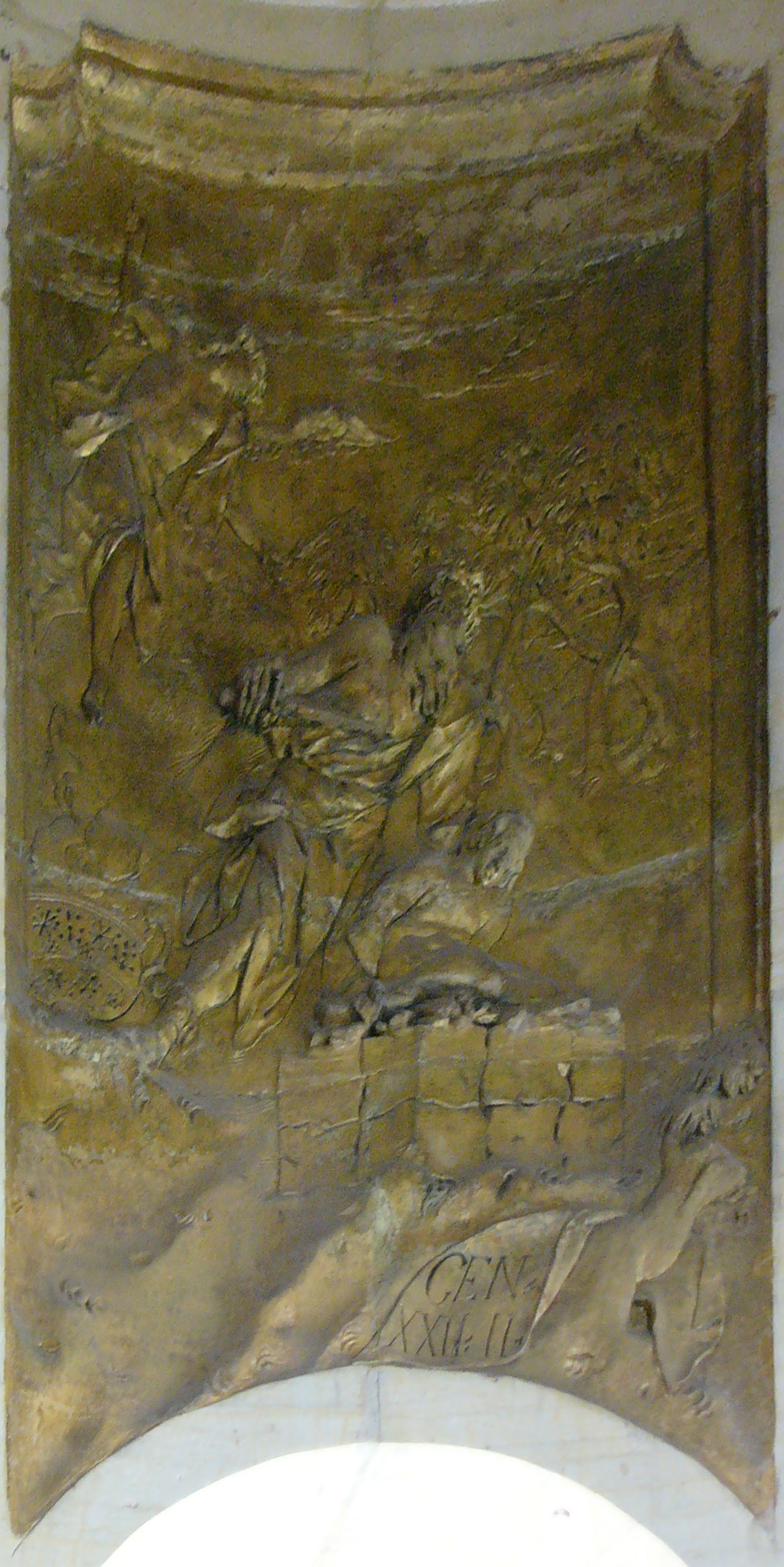 Holy Trinity Column in Olomouc (Czech Republic) - one of reliefs in the inner chapel depicting Abraham's offering of Isaac.